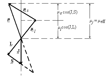 O Momento Magnético Total não é Colinear com momento angular .